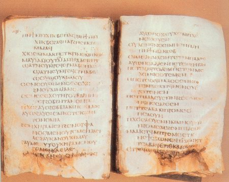 The Mudil Psalter was discovered in the Coptic cemetery of Al-Mudil in Middle Egypt in 1984. It is the earliest complete psalter in the Coptic language.